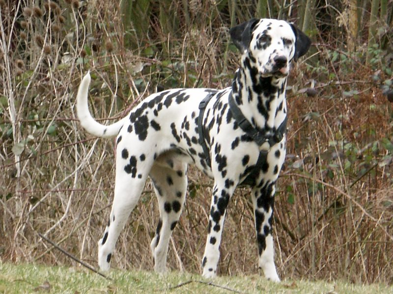 Dalmatiner